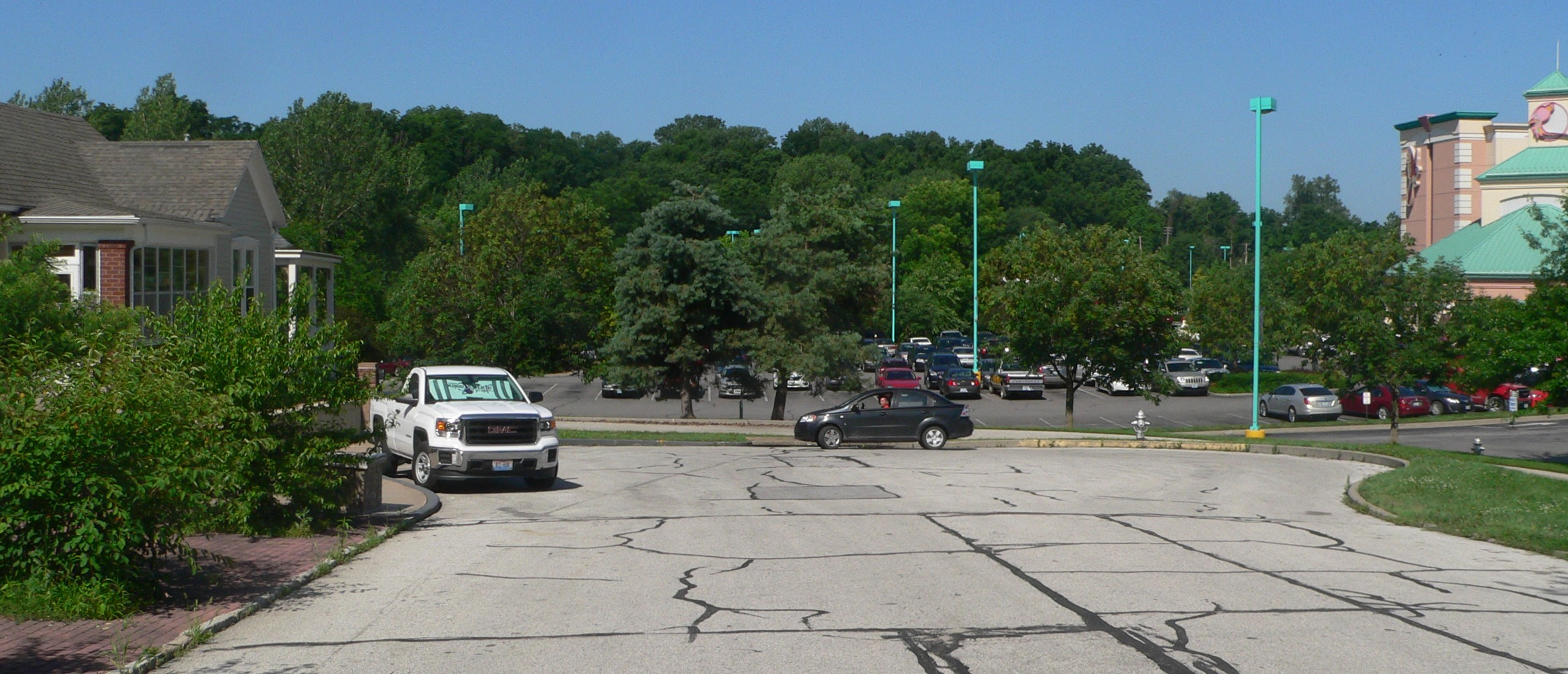 Boonville, Missouri, near non-junction of 2nd and High Streets. Camera is on High east-northeast of 2nd. High dead-ends before reaching 2nd, so there is no intersection. The area on the west-southwest side of 2nd, once occupied by the Meierhoffer Sand Company office building, is now a parking lot for the Isle of Capri Casino (partly visible across 2nd at right edge of photo). The building, listed in the National Register of Historic Places, is apparently no longer extant.